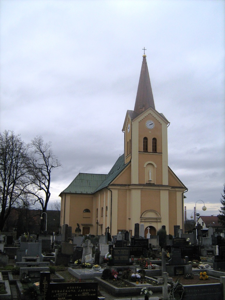 Church in Třebovice, Ostrava, the Czech Republic – front view